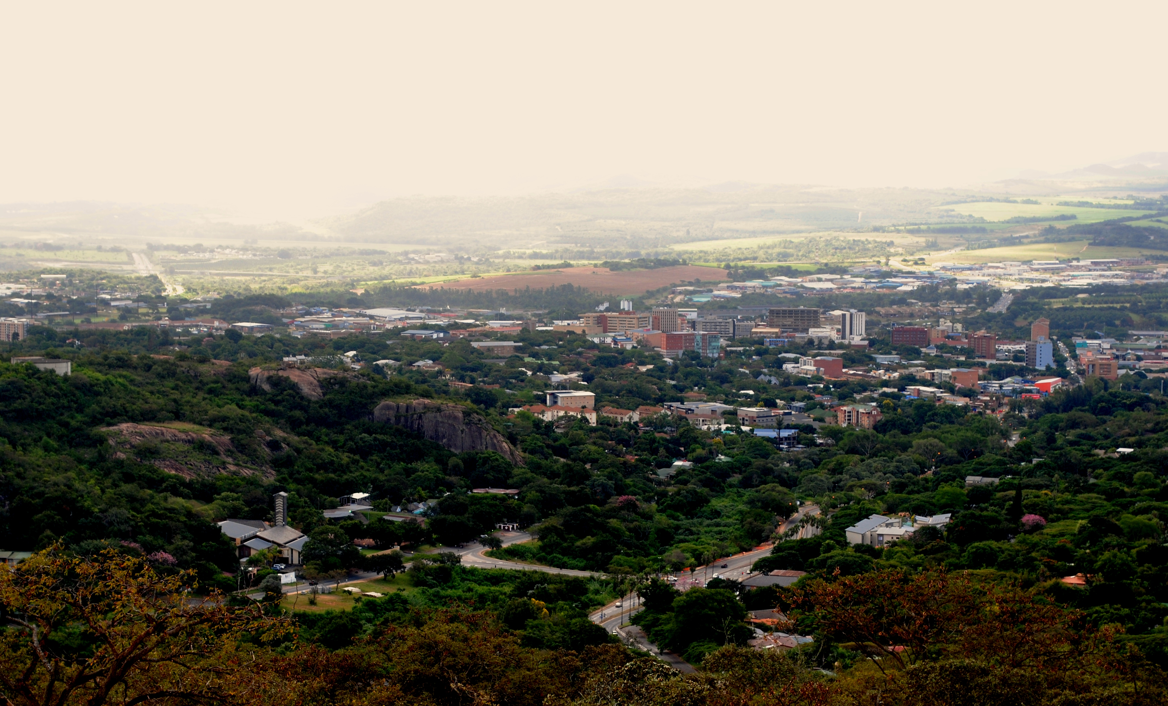 Panoramic view of Nelspruit, South Africa